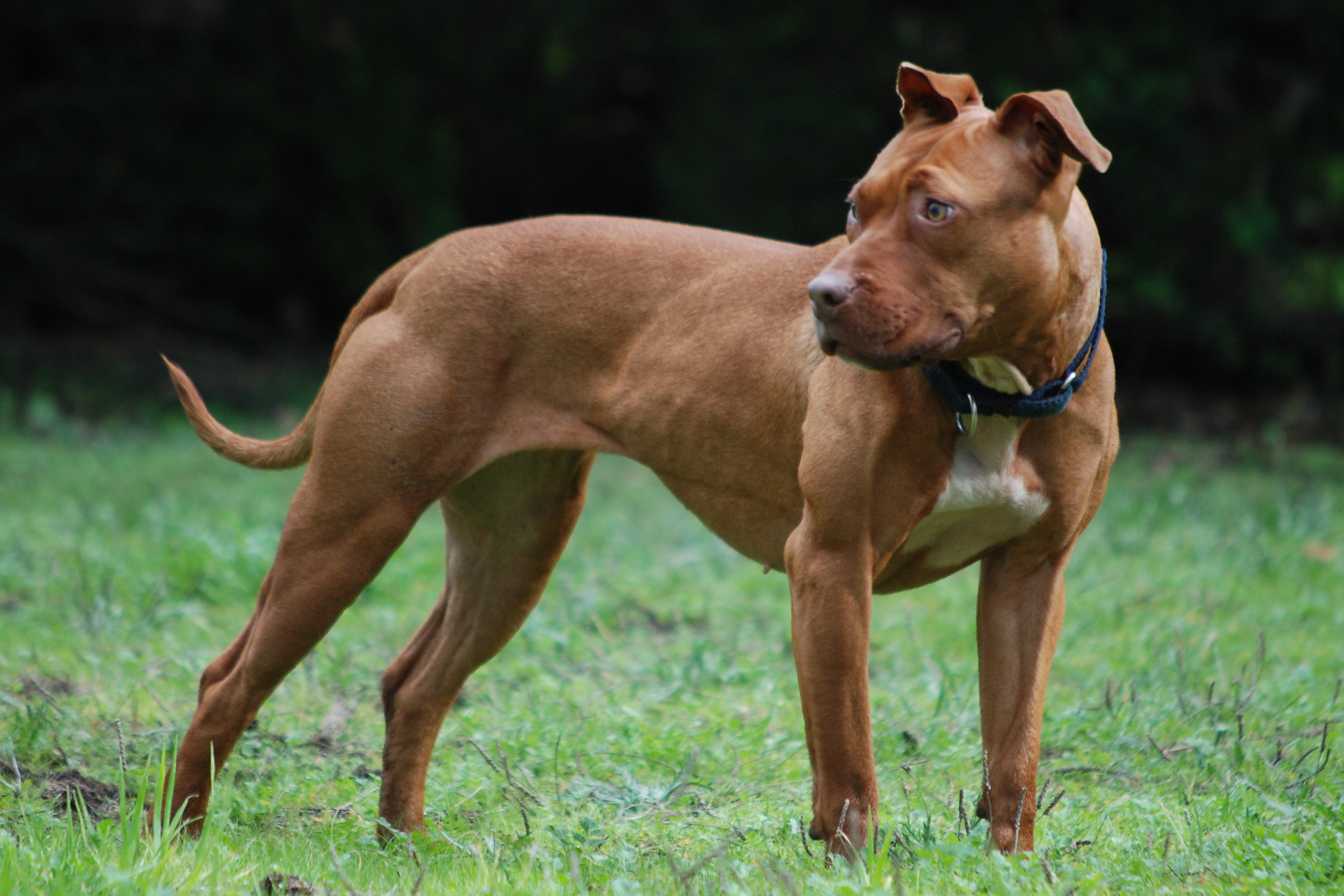 Ginger